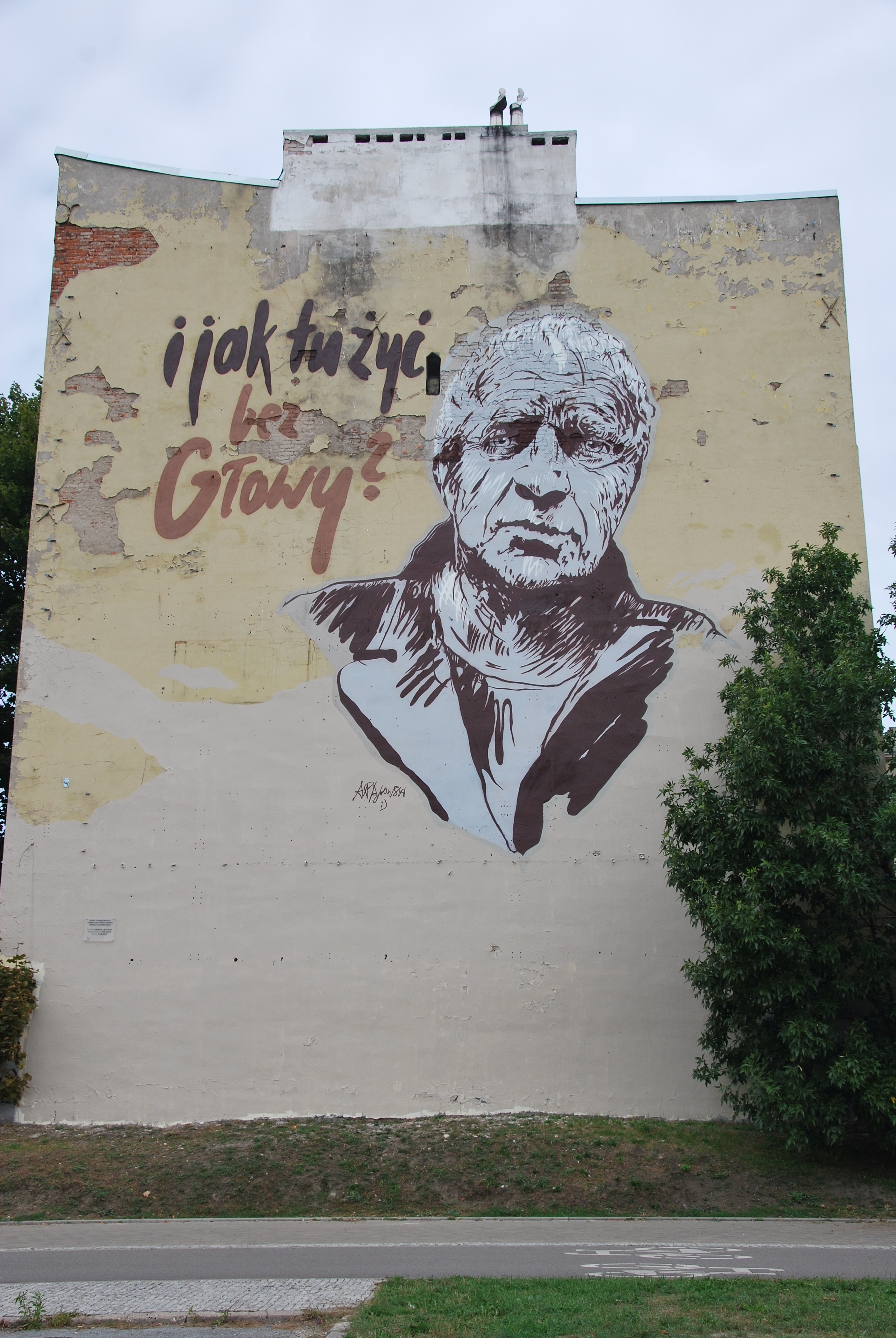 Mural of Andrzej Pągowski dedicated to Janusz Głowacki, Łódź 39 Targowa Street